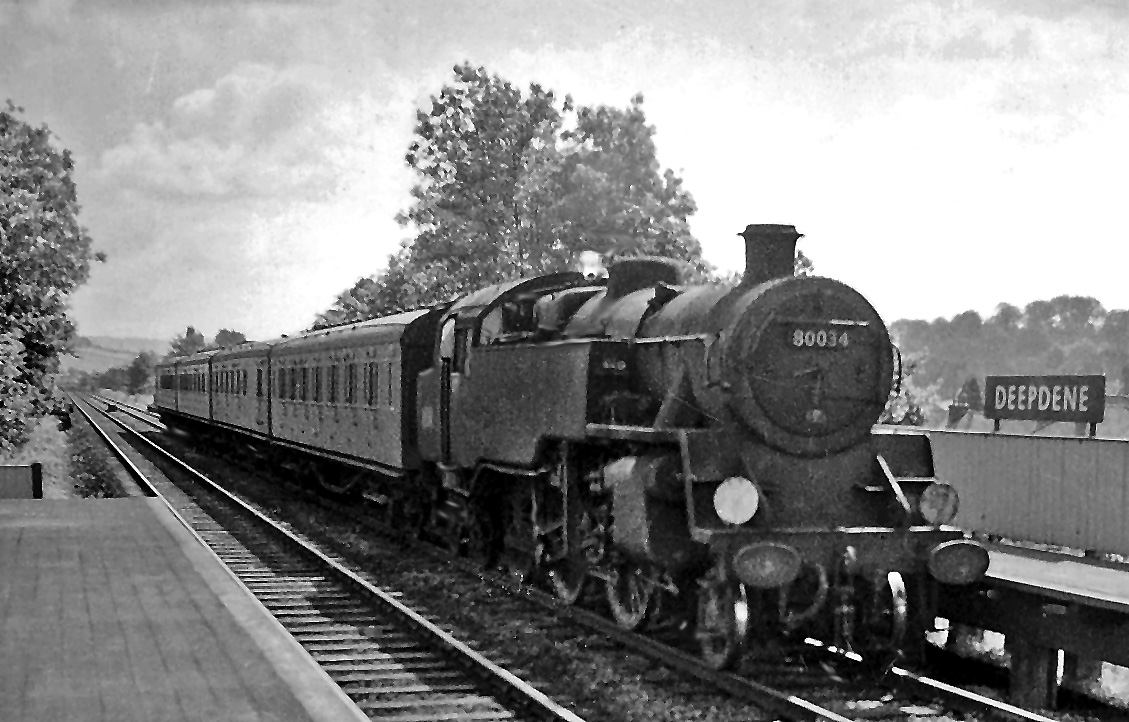 Redhill - Reading train arriving at Deepdene station. View eastward, towards Redhil: ex-SE&C Redhill - Guildford - Reading line. The 10.18 Redhill - Reading South is headed by BR Standard 4MT 2-6-4T No. 80034 (built 4/52, withdrawn 1/66).